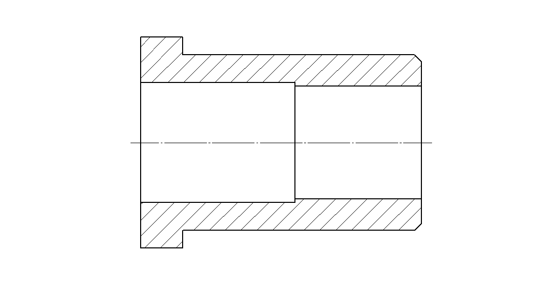 Guide Bushings A